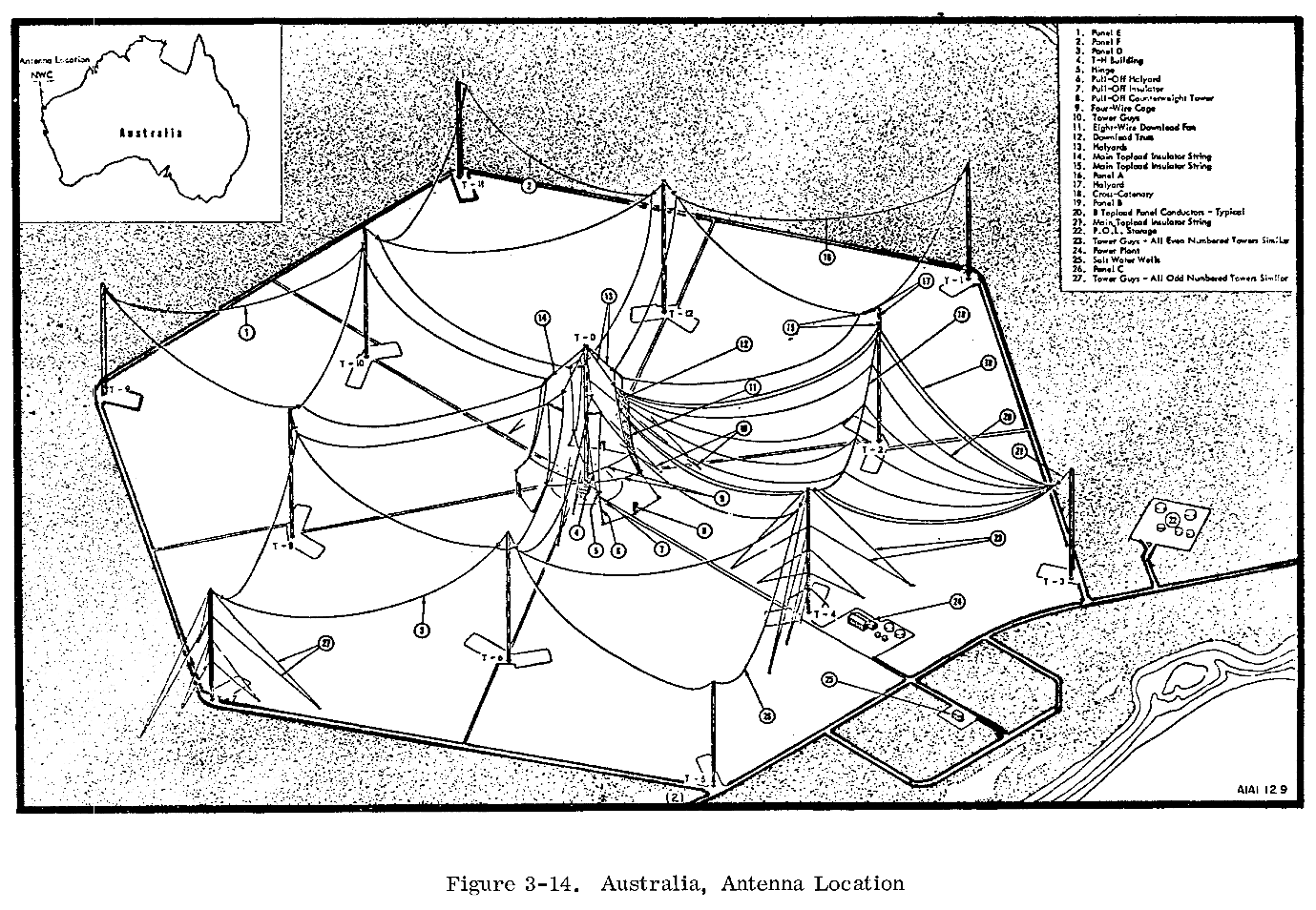 Antenna location at the U.S. Naval Communication Station Harold E. Holt in Exmouth, Western Australia, in 1972. This is a very low frequency (VLF) transmitter which communicates with submerged submarines. This type of antenna is called a "Trideco" or umbrella antenna. It consists of multiple steel masts which radiate radio waves, with a network of cables attached to their tops. The cables do not themselves radiate radio waves, but serve as a capacitive top-load, adding capacitance to the top of the antenna to make it more efficient. On the ground under the antenna there is an elaborate ground system called a counterpoise consisting of radial cables in a star shape suspended a few feet above the ground.